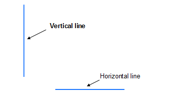 Image shows how both lines are different from each other.